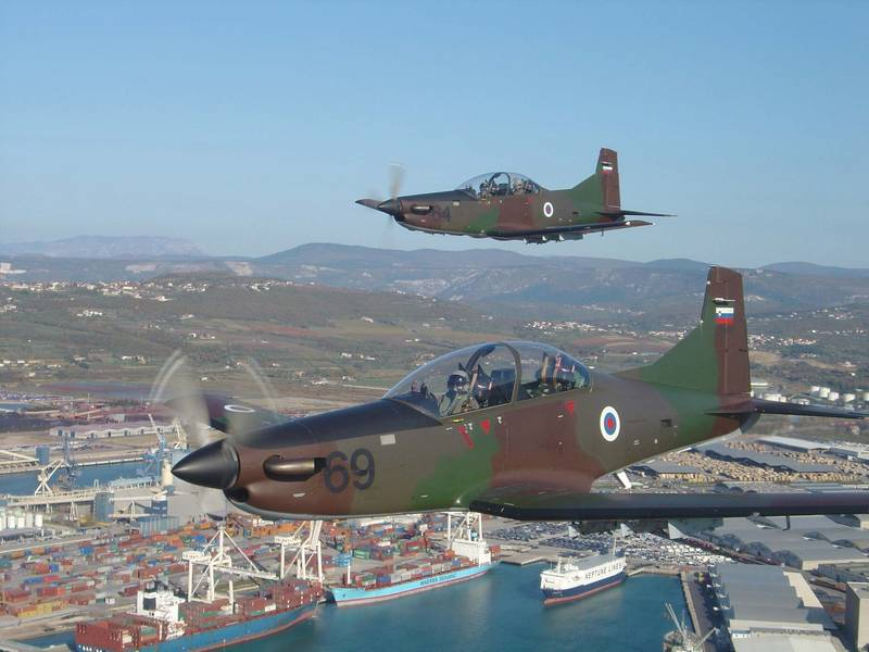 2 Slovenian Air Force Pilatus PC9M Hudournik